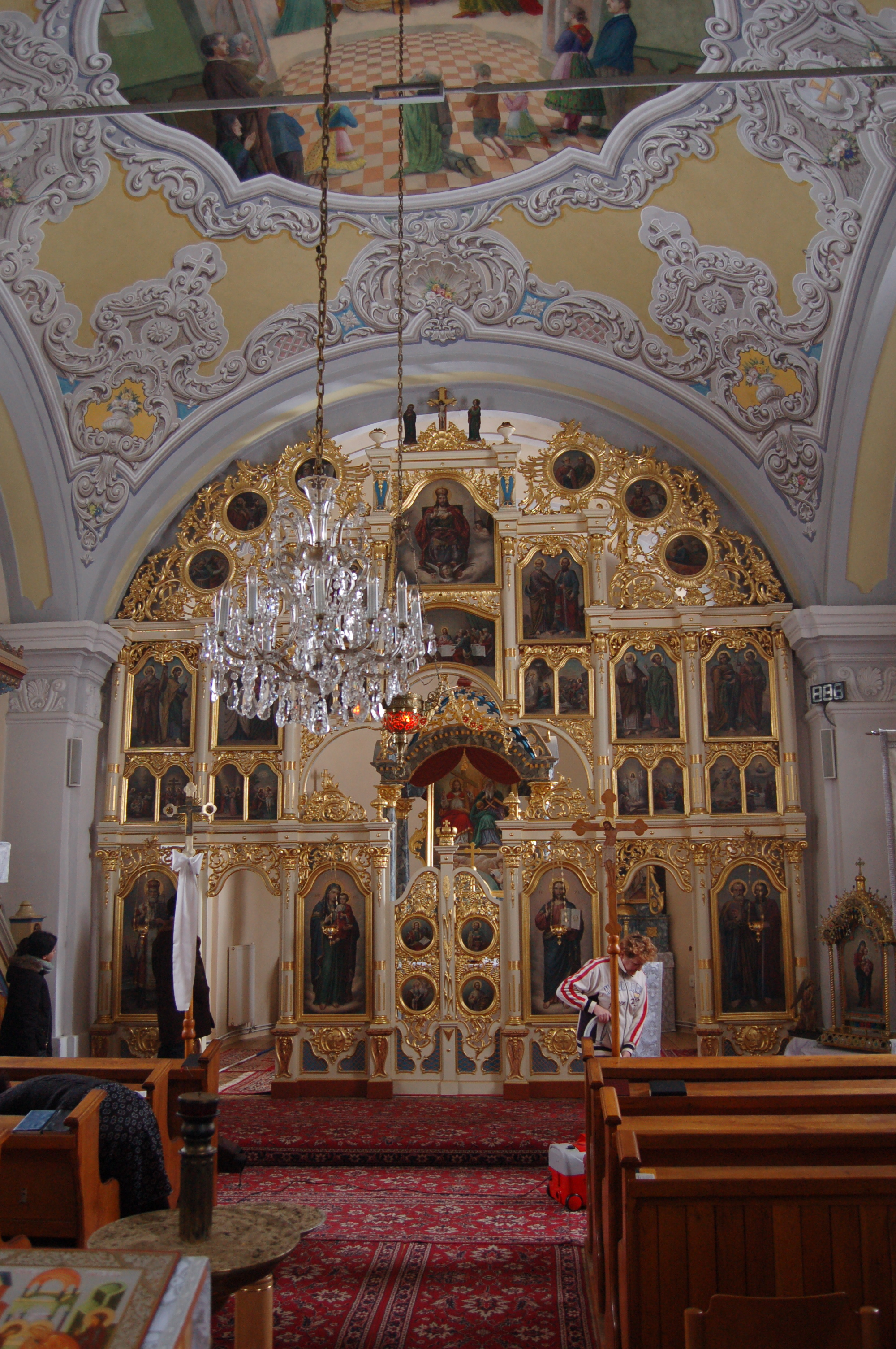 Interior of the Greek Catholic Church in Brezina